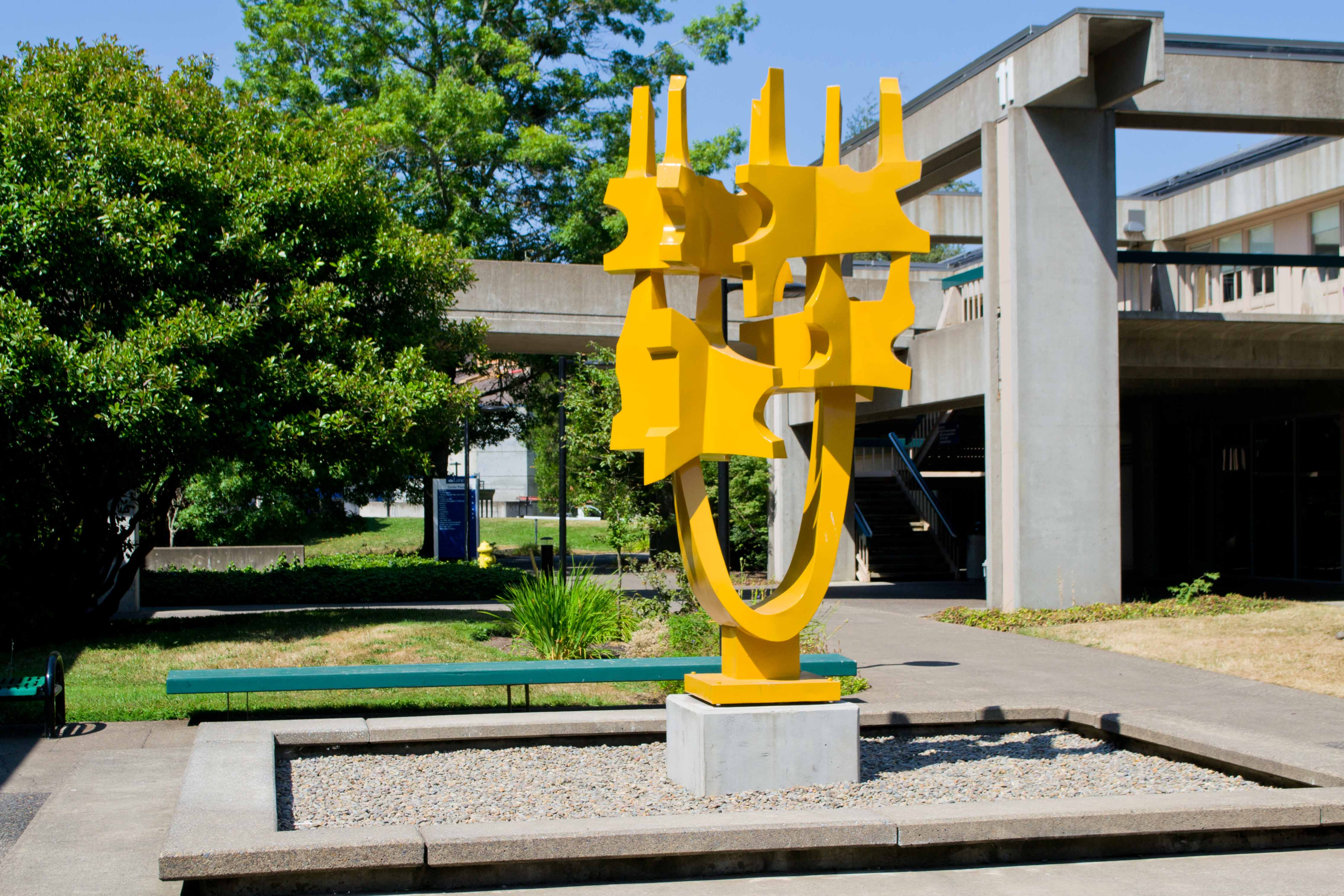 Main campus near building 12.